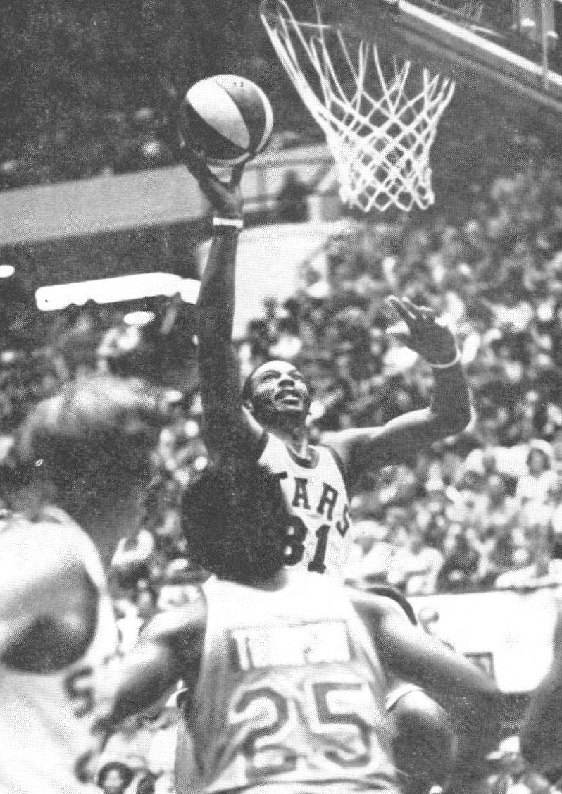 Professional basketball player Zelmo Beaty